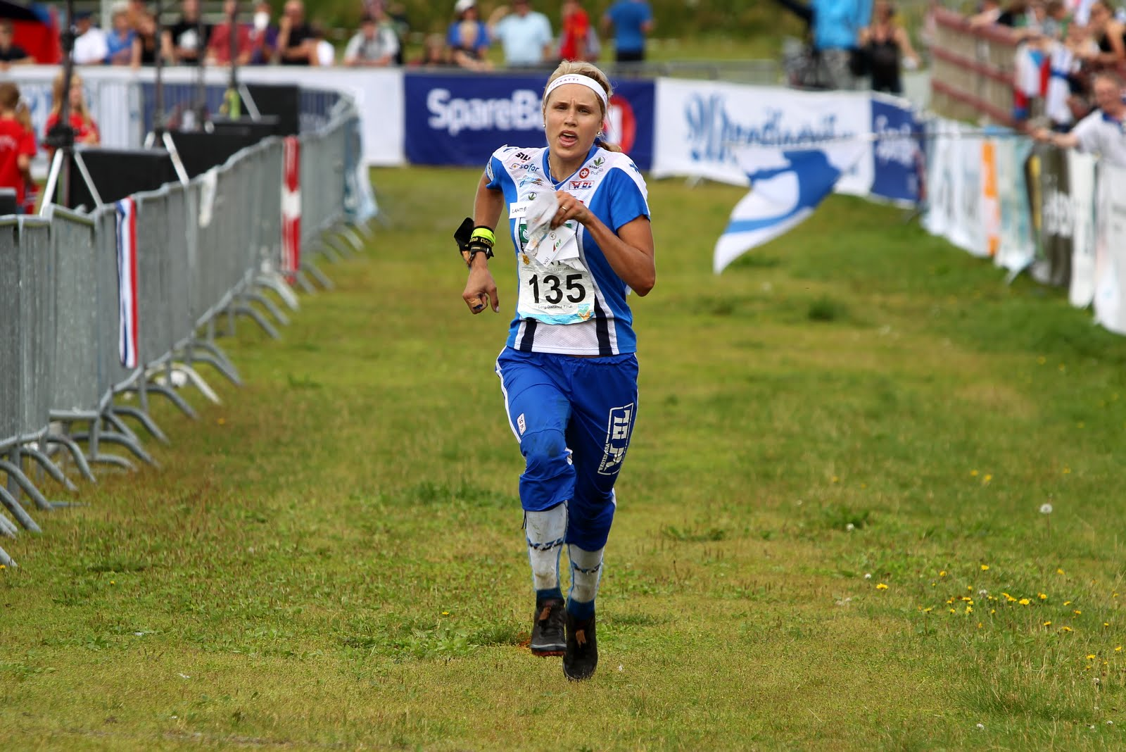 Minna Kauppi at World Orienteering Championships 2010 in Trondheim, Norway